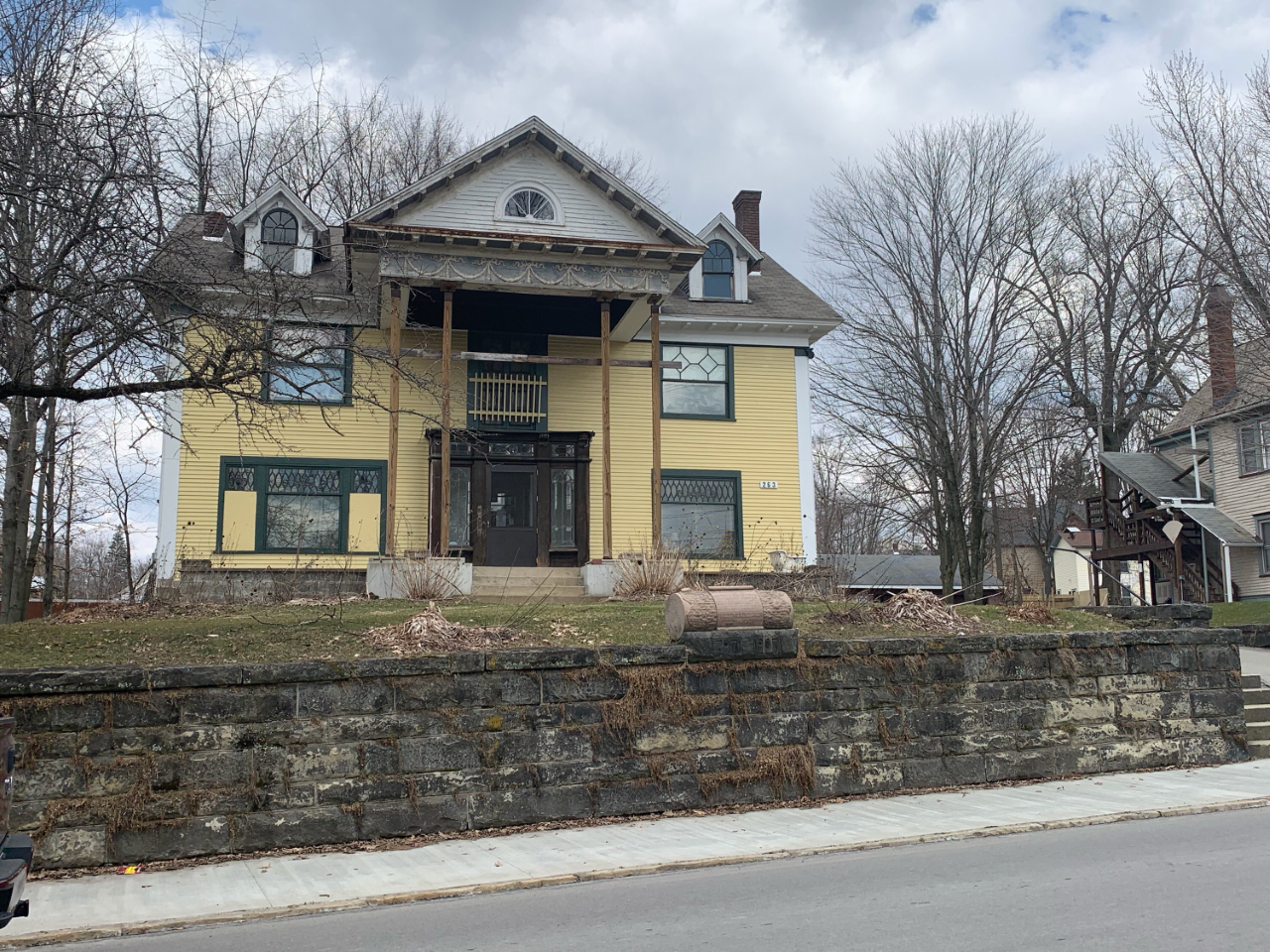 This image shows David Mead's original house and settlement